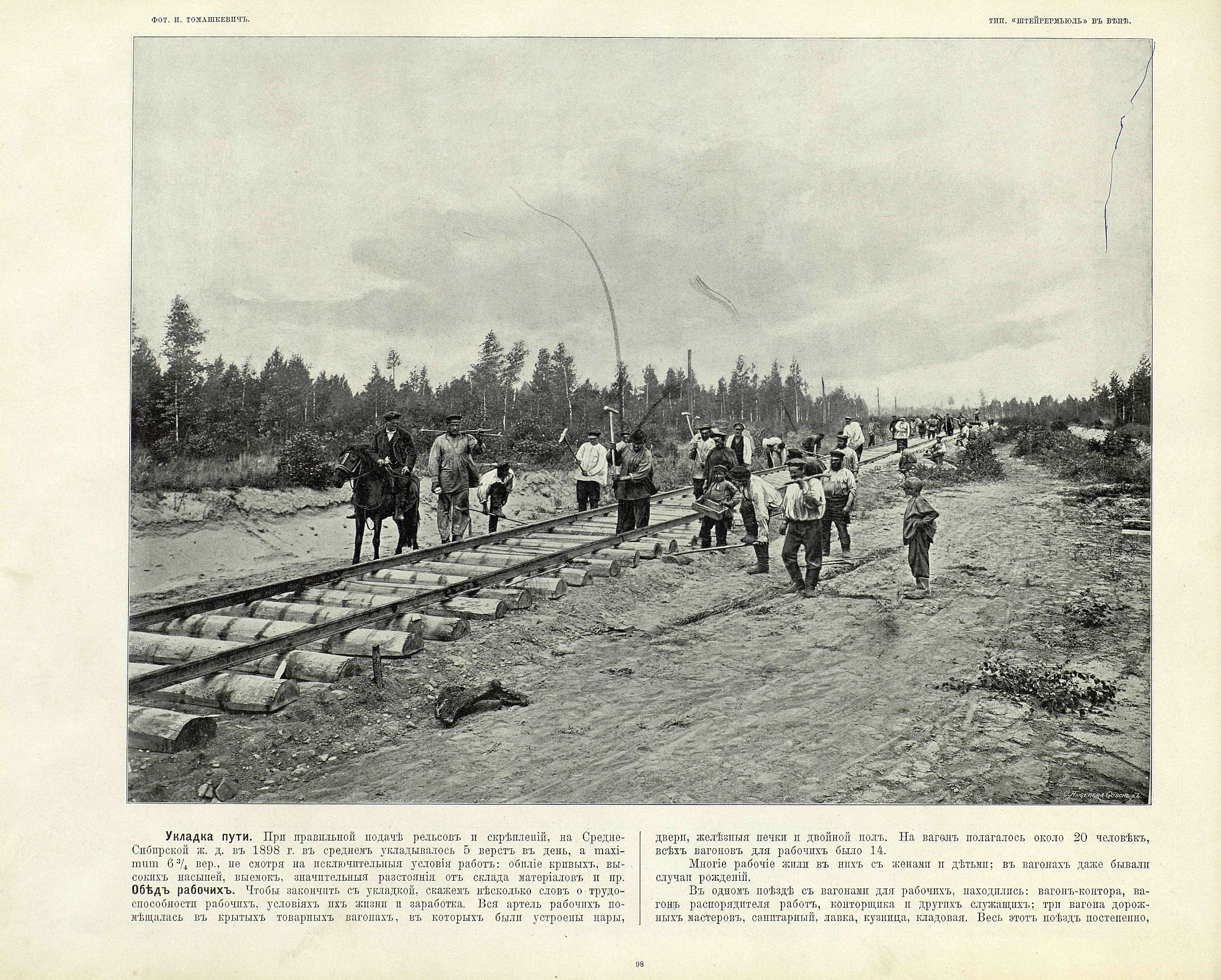 «Great Path - Views of Siberia and Great Siberian Railway» book, 1899